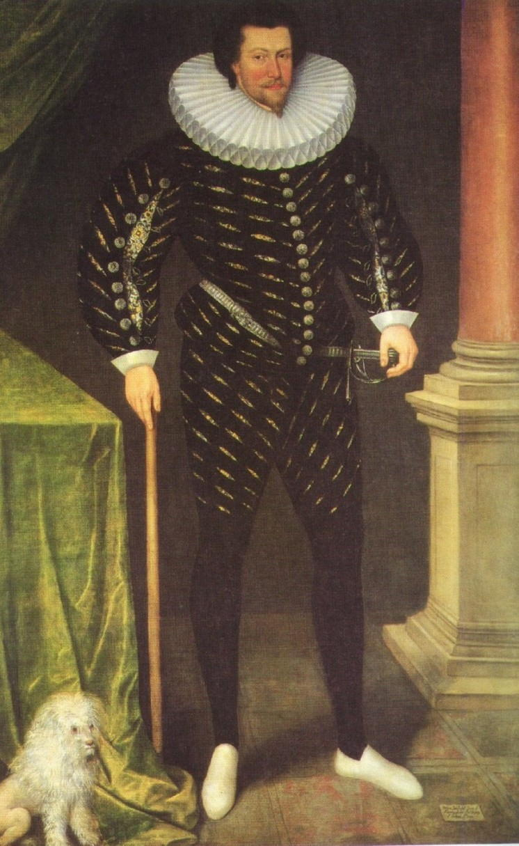 Portrait of William Russell, 1st Baron Russell of Thornhaugh (c. 1557–1613).